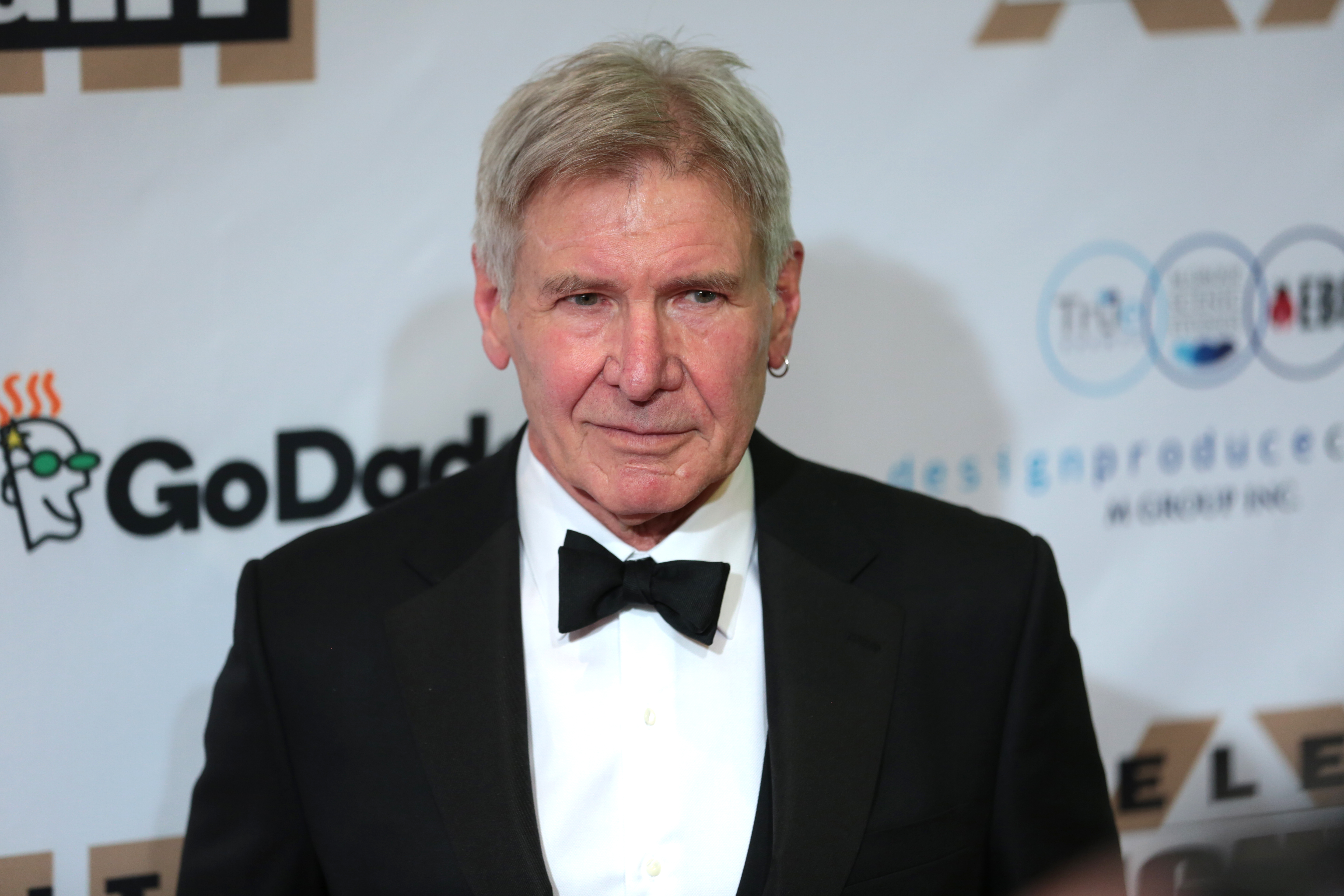 Harrison Ford on the red carpet at Celebrity Fight Night XXIII at the JW Marriott Desert Ridge Resort & Spa in Phoenix, Arizona.